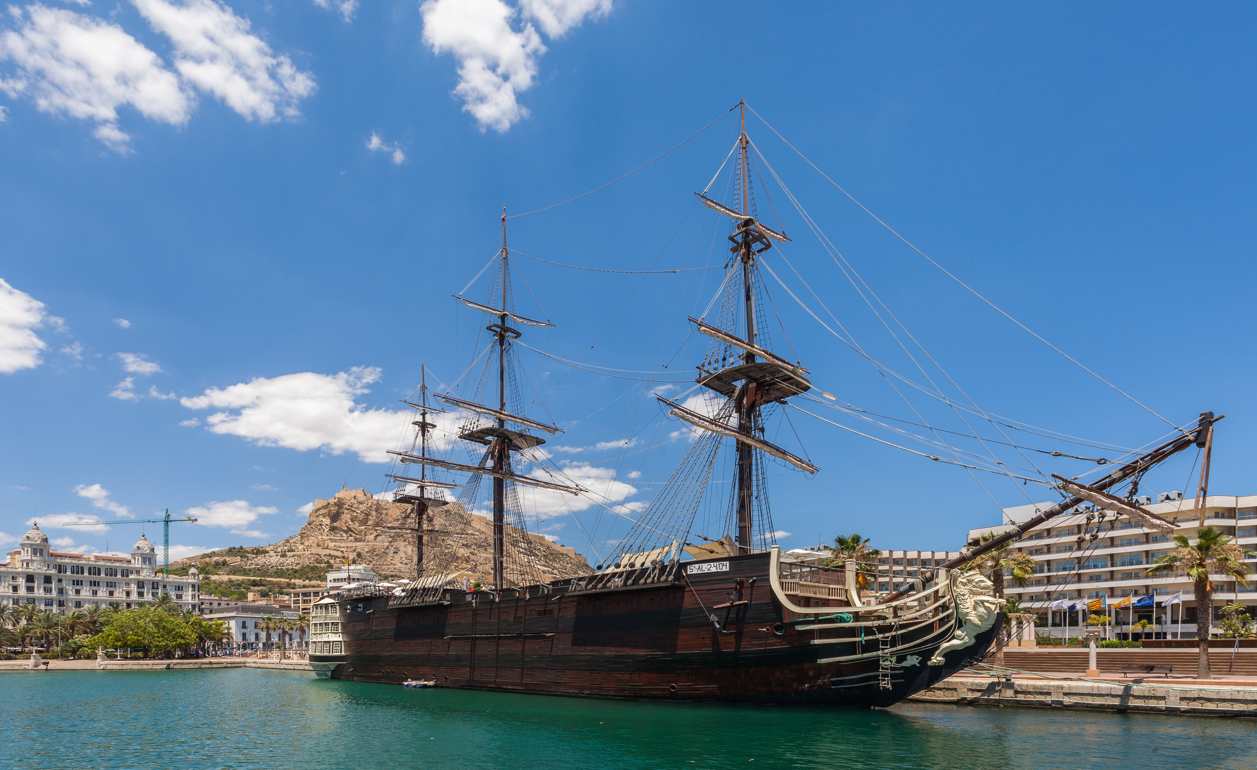 Santísima Trinidad galleon, Port of Alicante, Spain